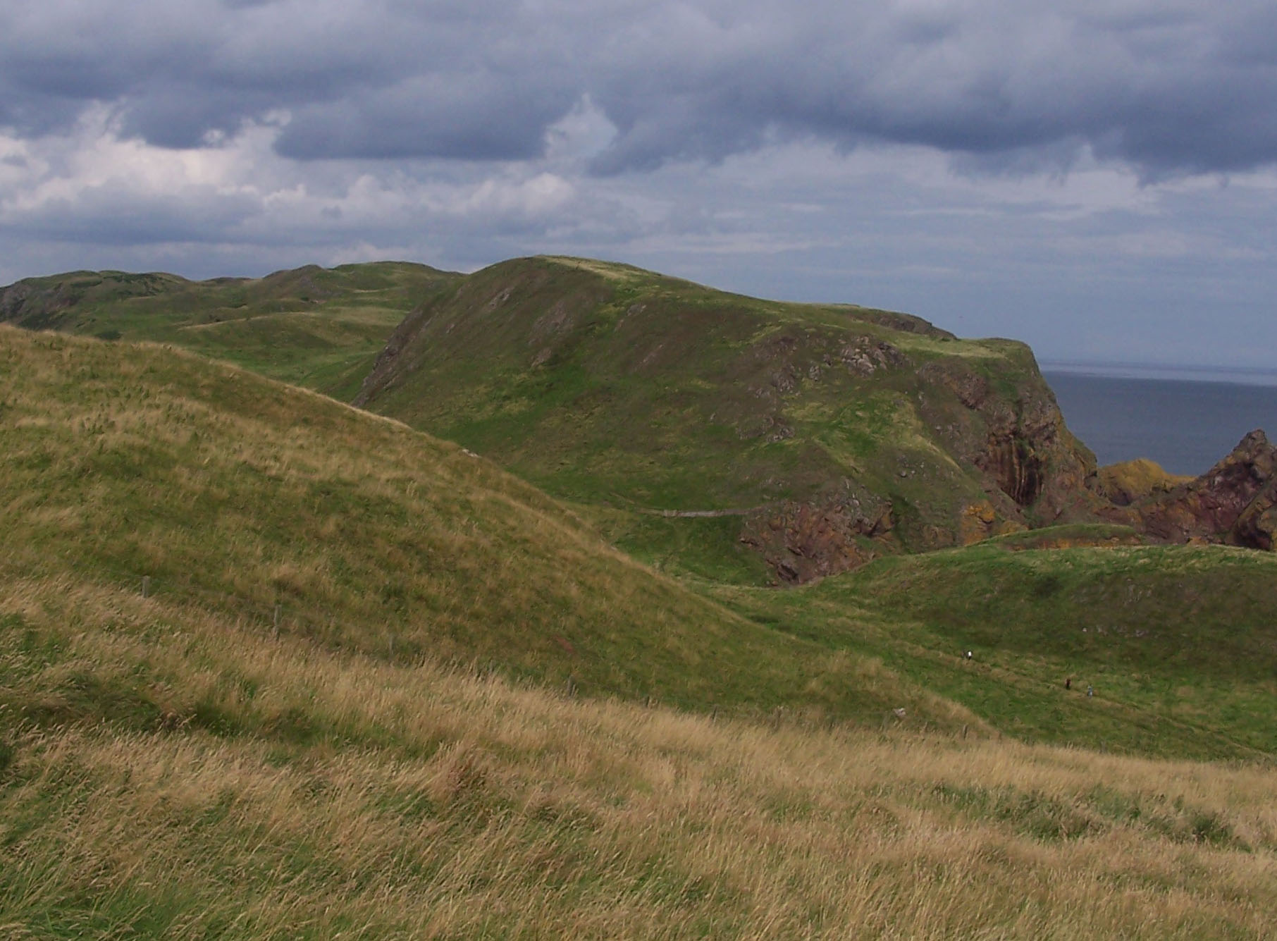 Kirk Hill on St. Abbs Head, the site of St. Aebbe's 6th century monastery.